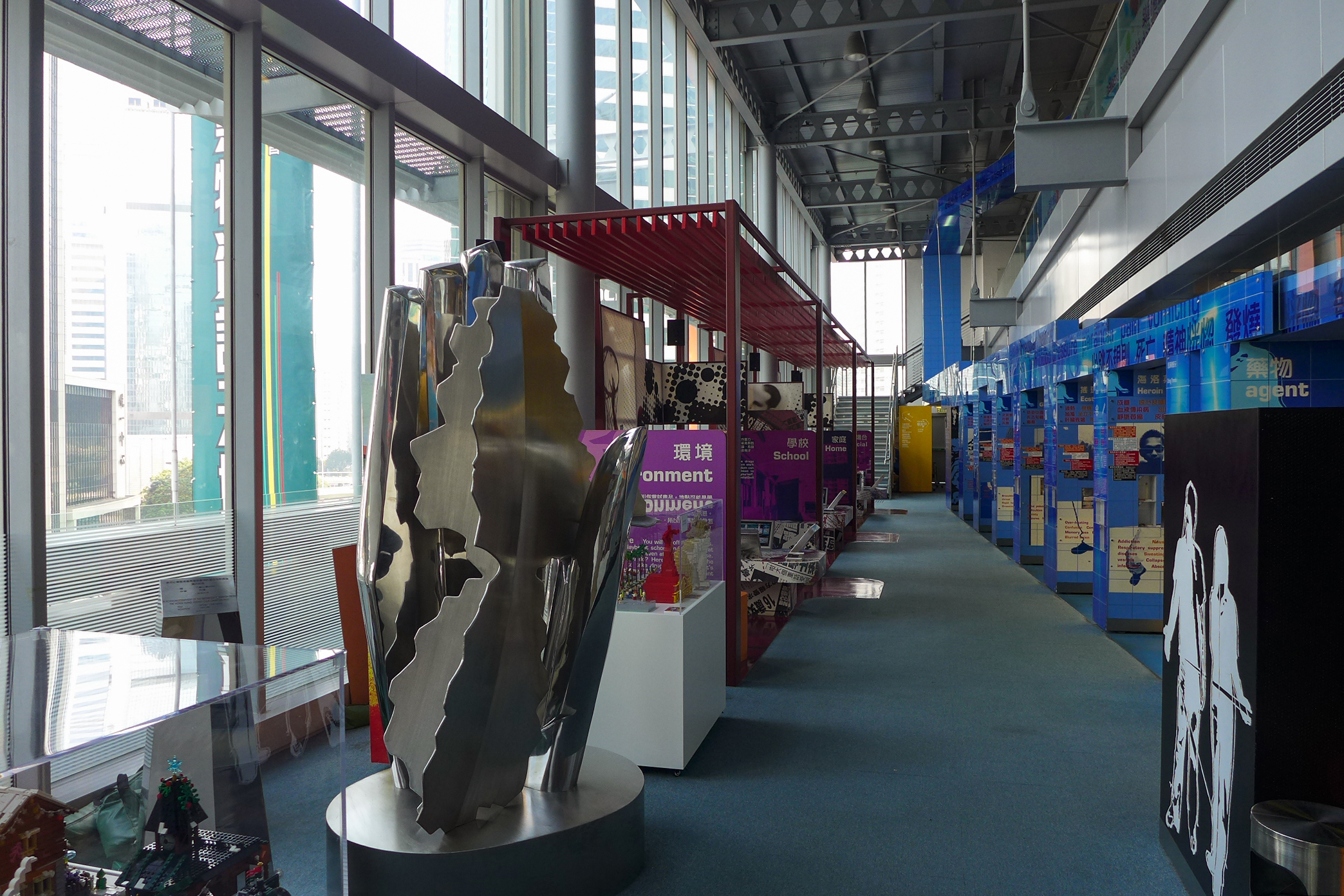 Queensway Government Offices Drag info Centre